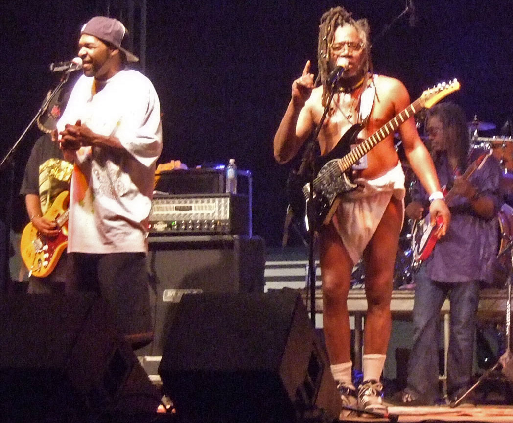 Parliament-Funkadelic performing at Capitol City Carnival in Centreville, Virginia on September 22, 2007.